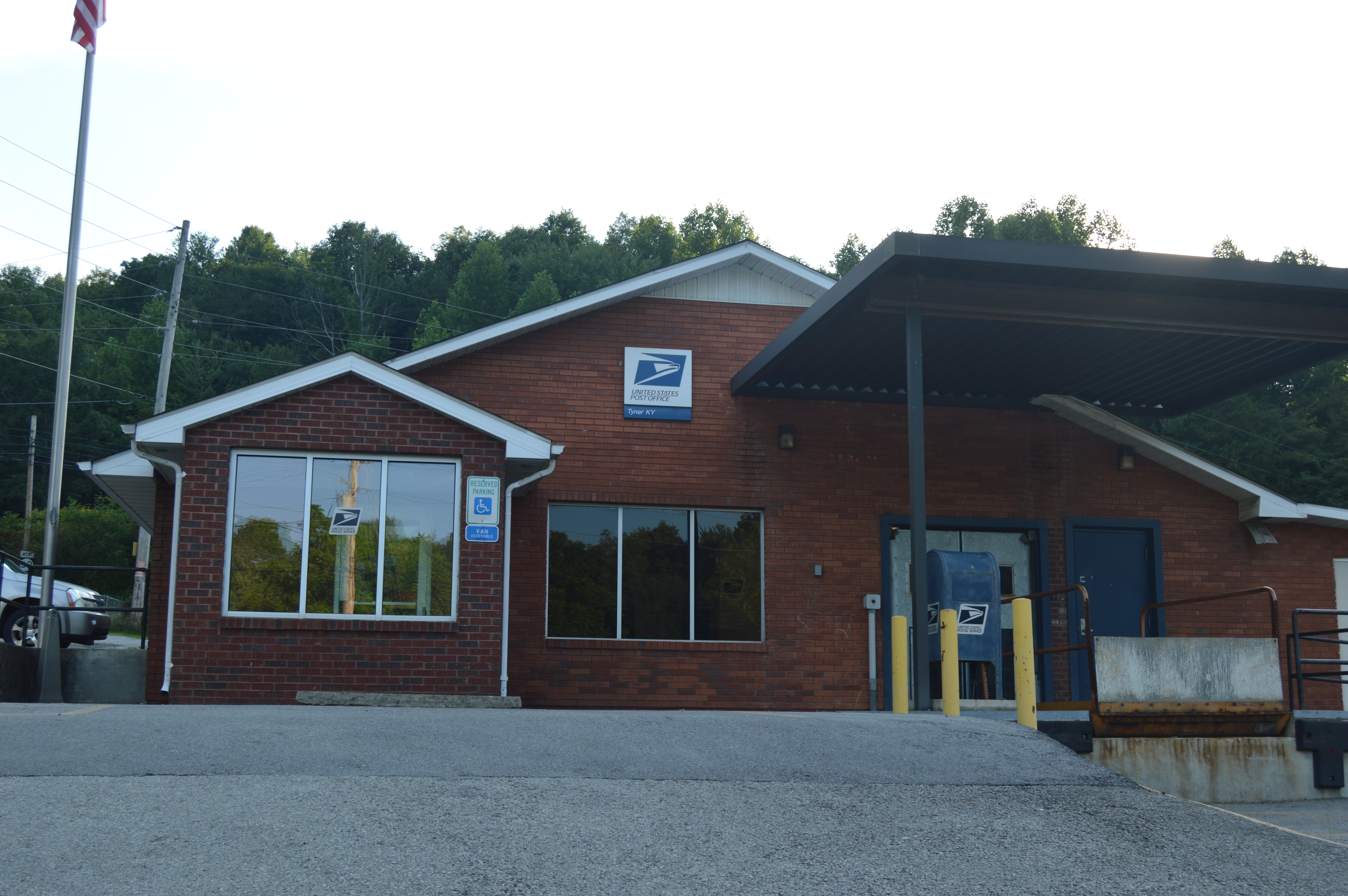 Front of the Tyner Post Office, located at 11535 S. U.S. Route 421/Kentucky Route 30 in Tyner, Kentucky, United States.